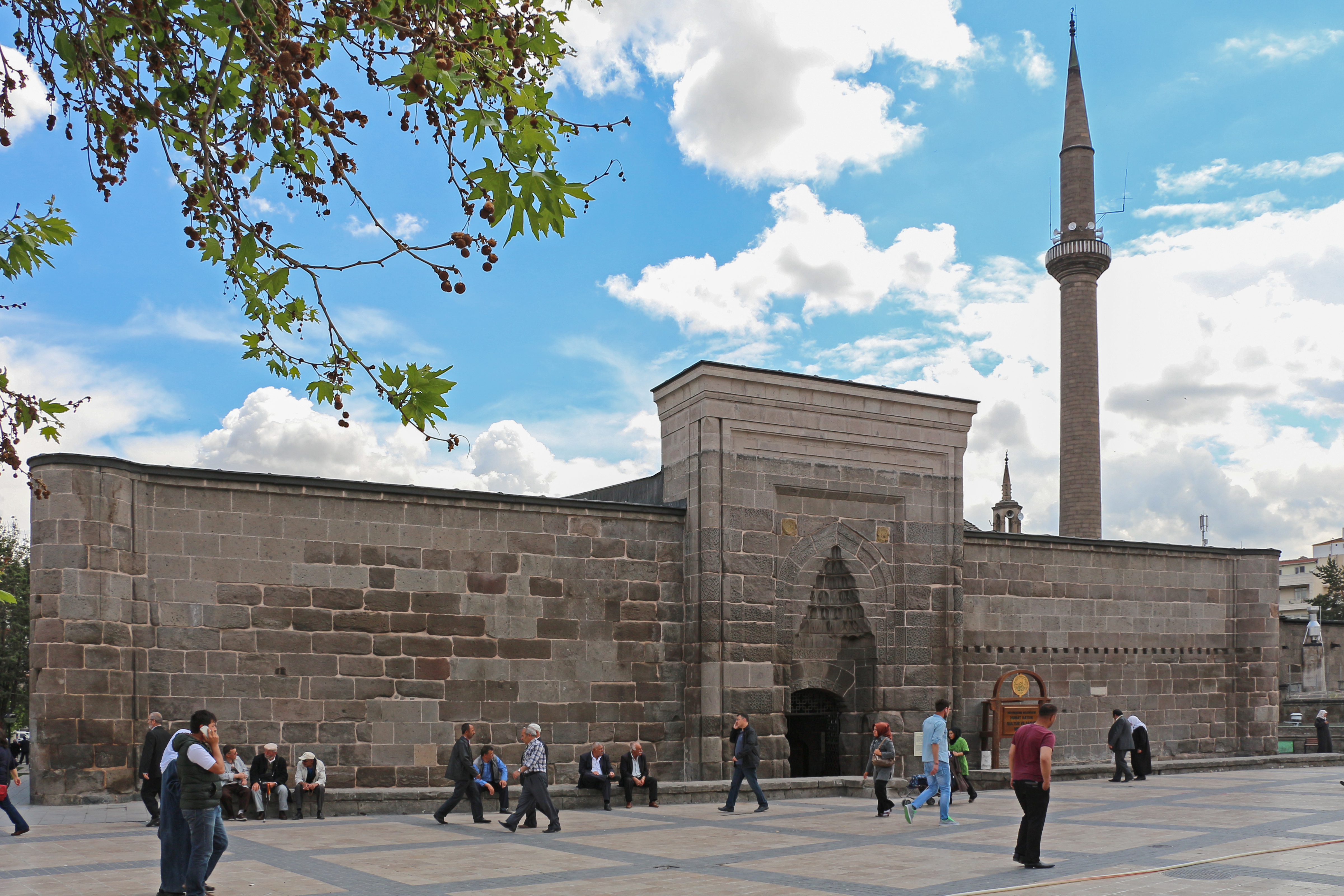 Hunat Hatun Külliyesi, Kayseri, Turkey